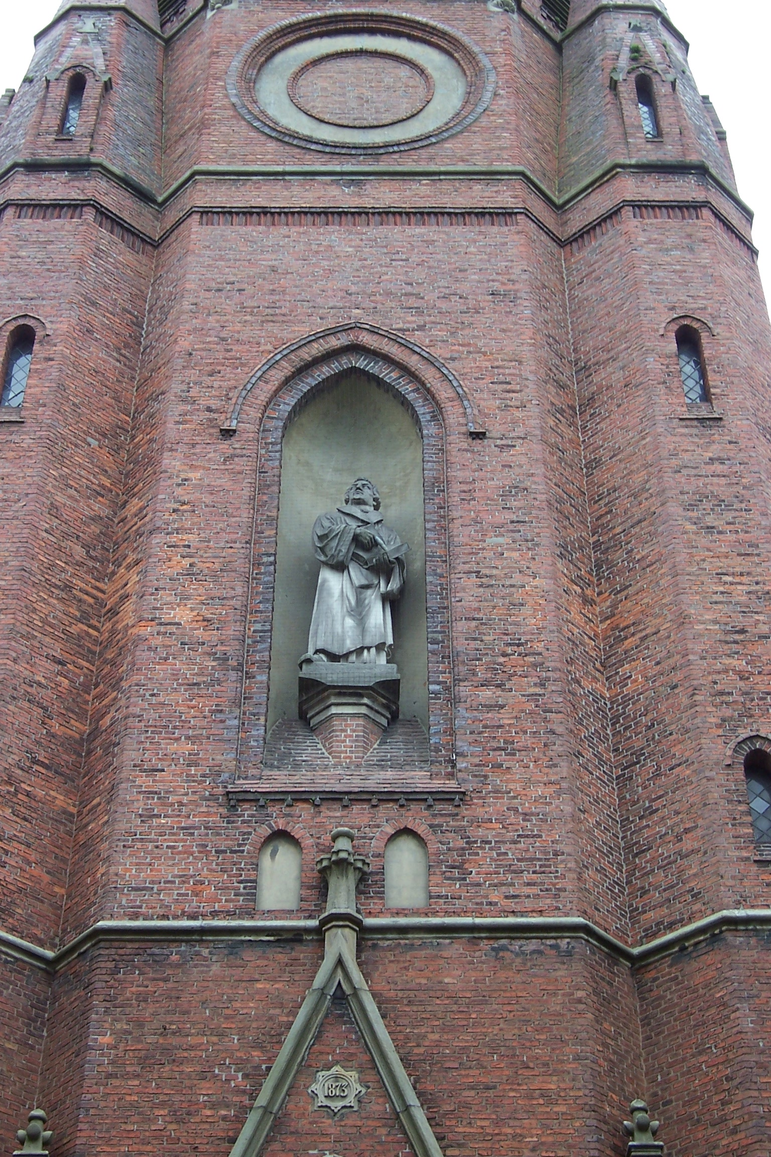 Tower of Lambertikirche, Oldenburg from 1873 with statue of Martin Luther